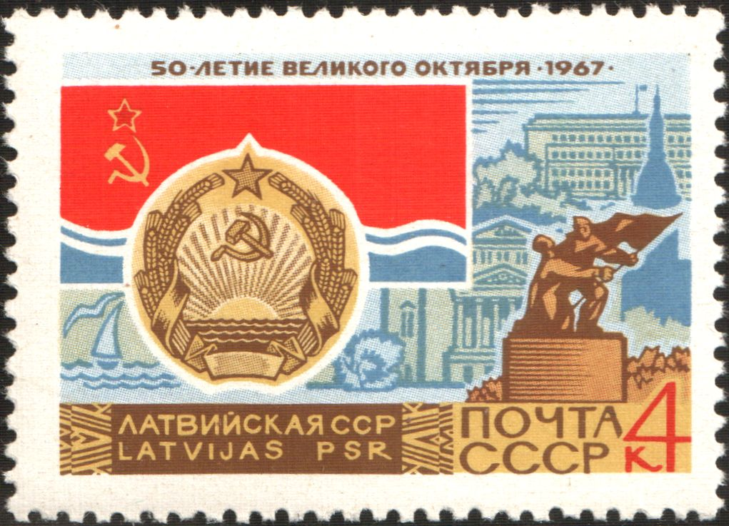 Postage stamp issued by the Soviet Union 1967 with views of Riga, Latvia.